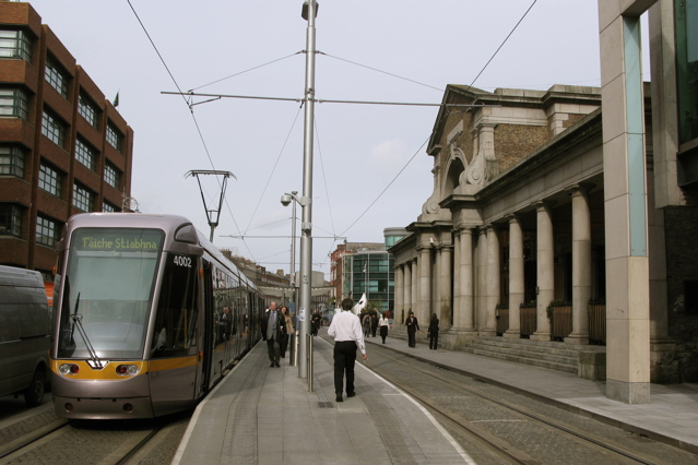 Harcourt Street Luas Station, Dublin. The "Luas" (Irish for speed) light railway between Dublin and Sandyford opened in July 2004. The building to the right is the disused Harcourt Street railway. This was opened by the Dublin & Wicklow Railway in 1859. It was closed in 1958.